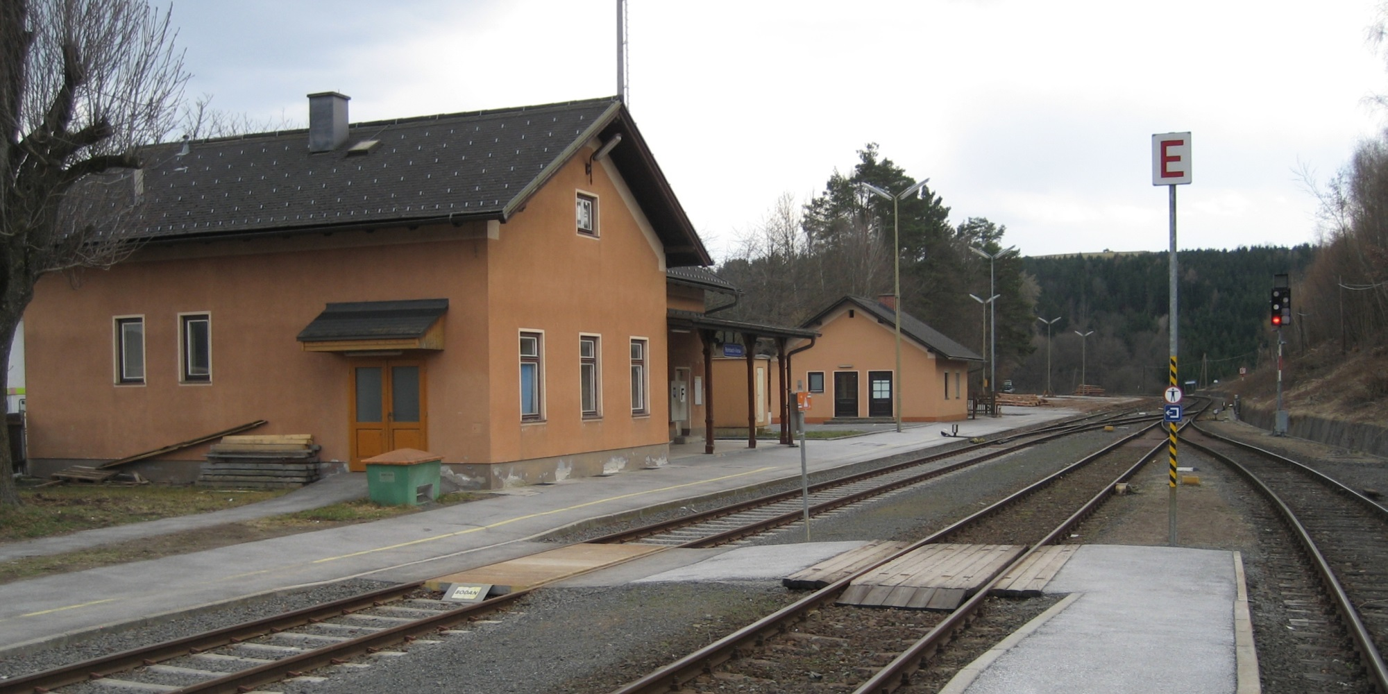 train station Rohrbach-Vorau in Styria